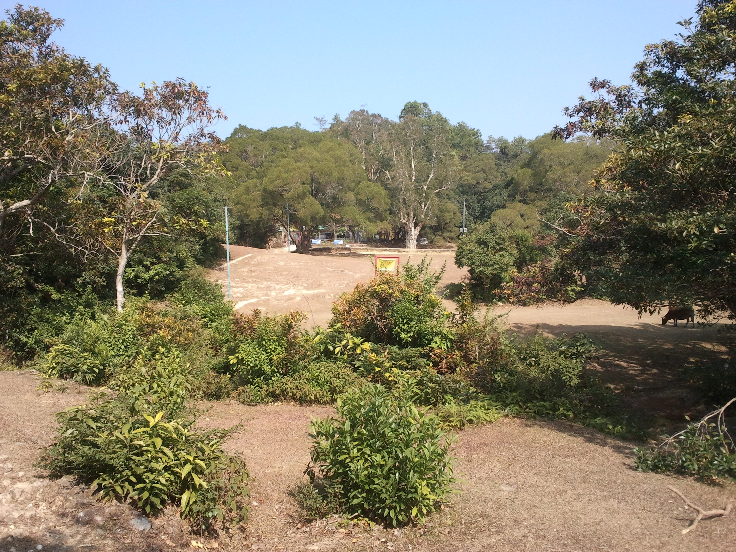 Cheung Sheung plain